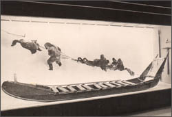 Admiral Robert Peary's North Pole Sledge